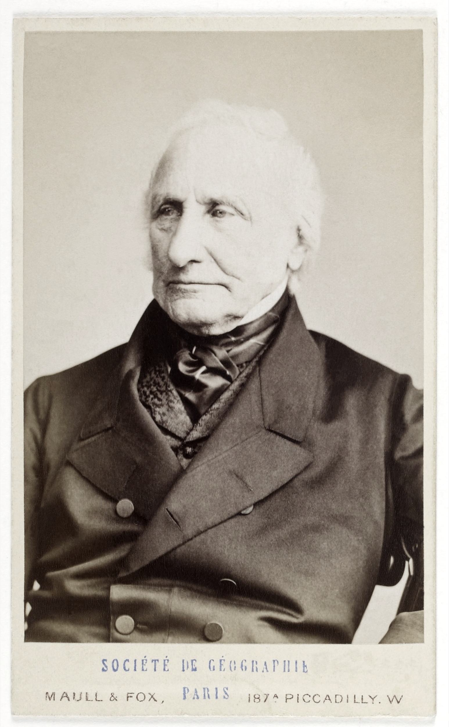 General Sir Edward Sabine (1788 – 1883), Anglo-Irish astronomer, geophysicist, ornithologist, and explorer.